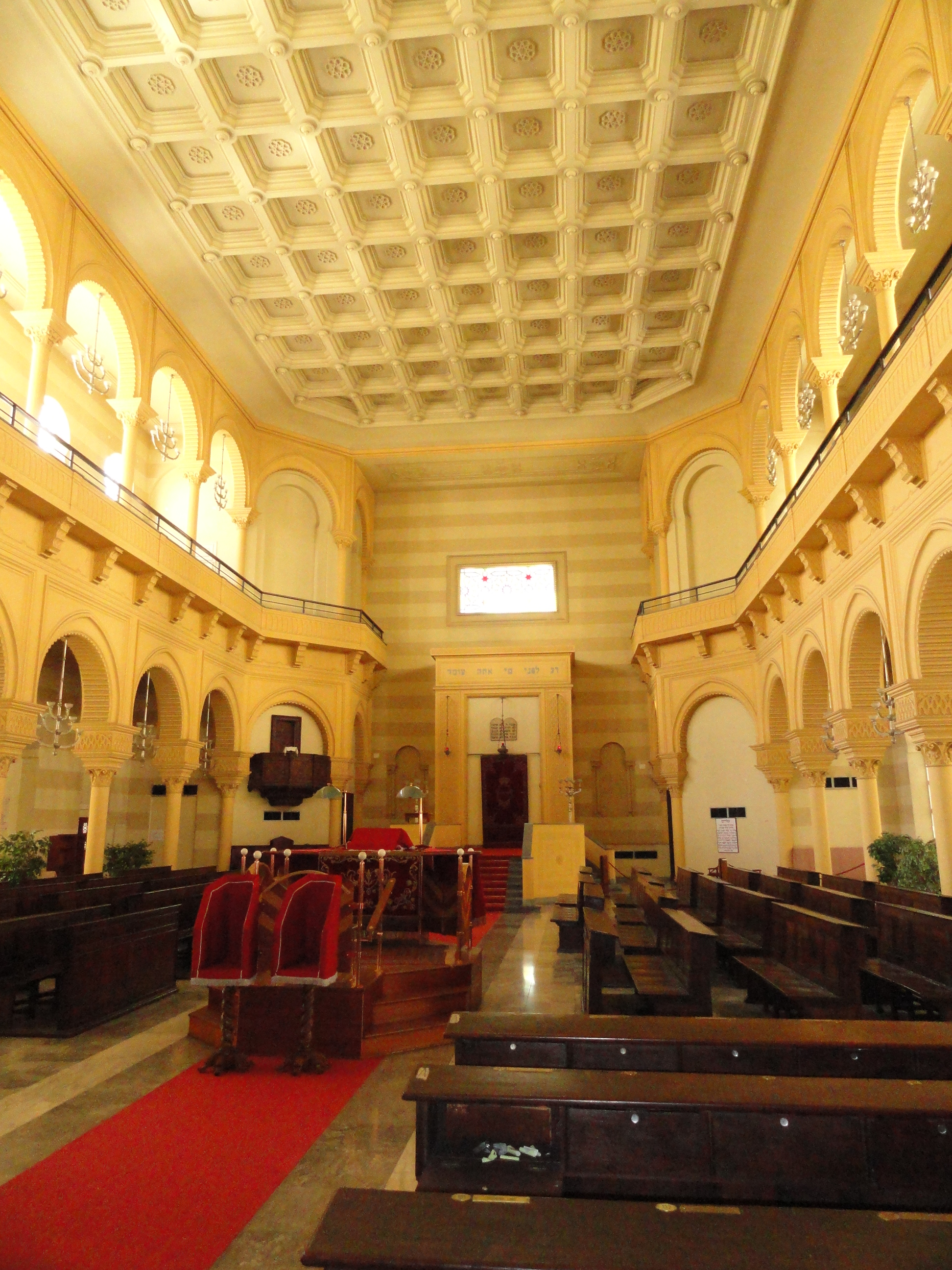 Synagogue of Turin (Italy), built in 1884. General view